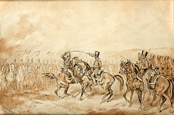 Barttle of Iłża